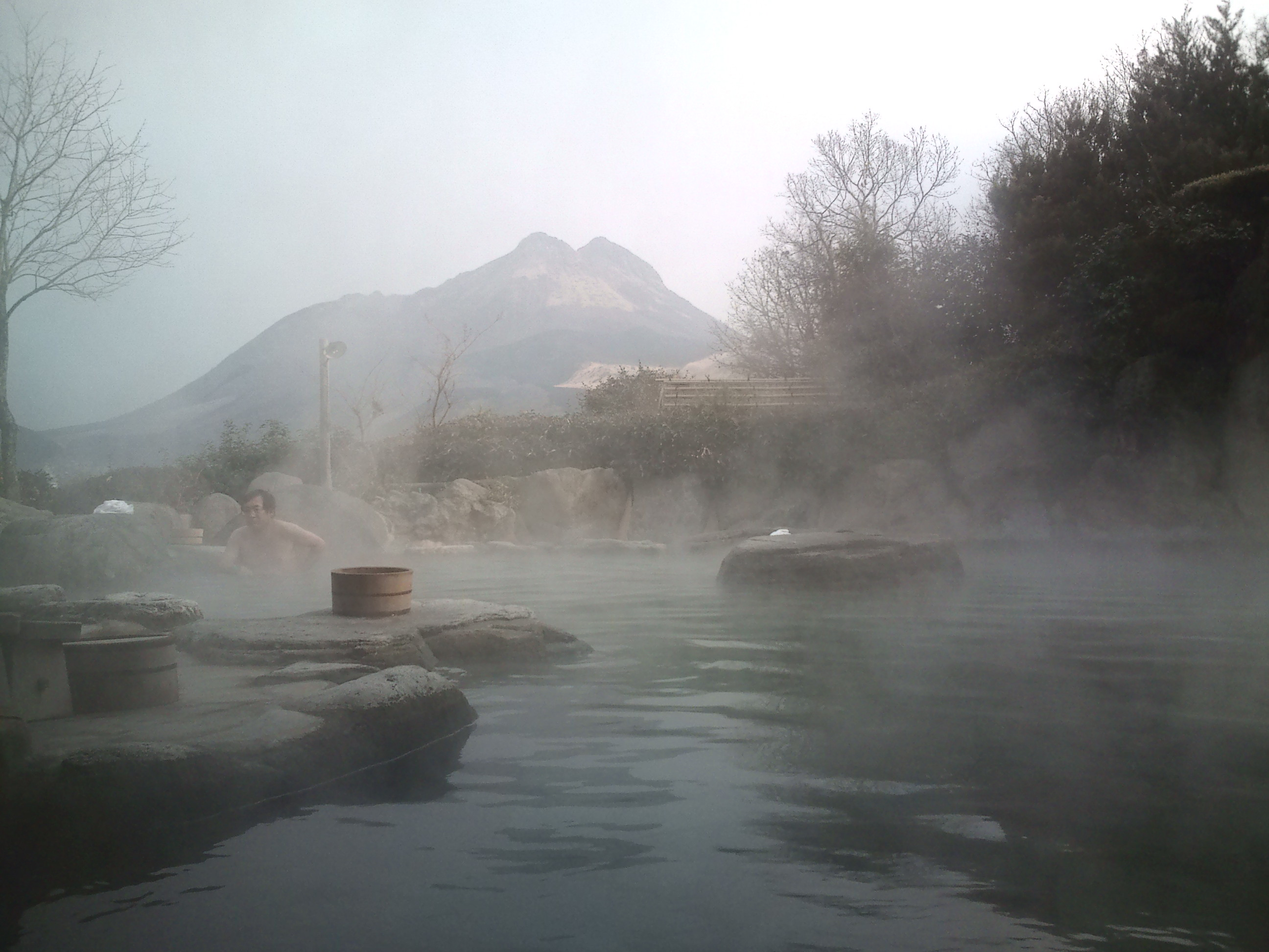 Outdoor hot spring bath of Musōen, a tourist hotel of Yufuin Onsen.